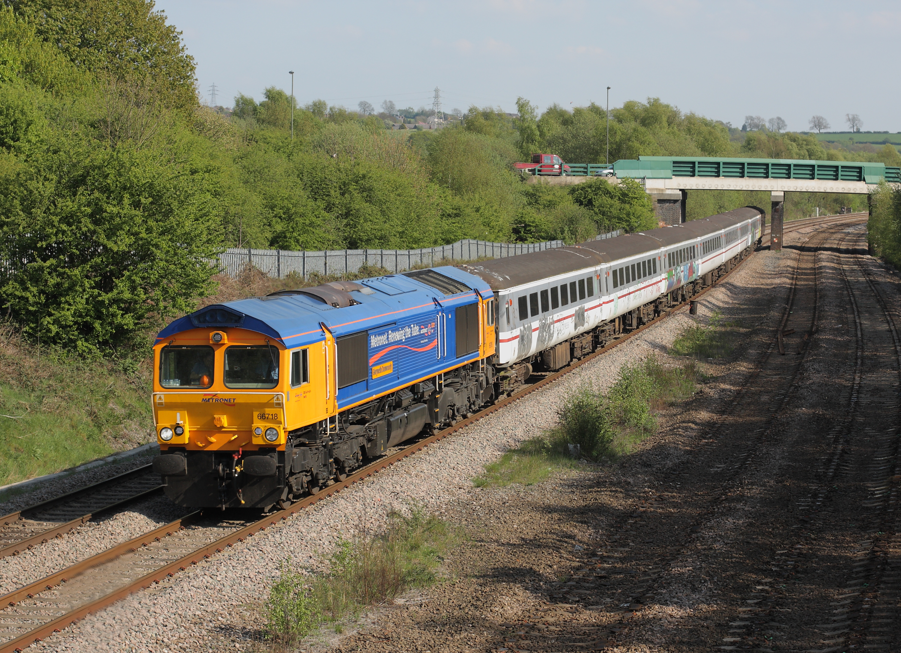 66718 "Gwyneth Dunwoody" passes Coney Green working 6Z27 Shoeburyness - Rotherham (Booths) The train consisted of redundant Gatwick Express coaches for scrap,so a one way journey